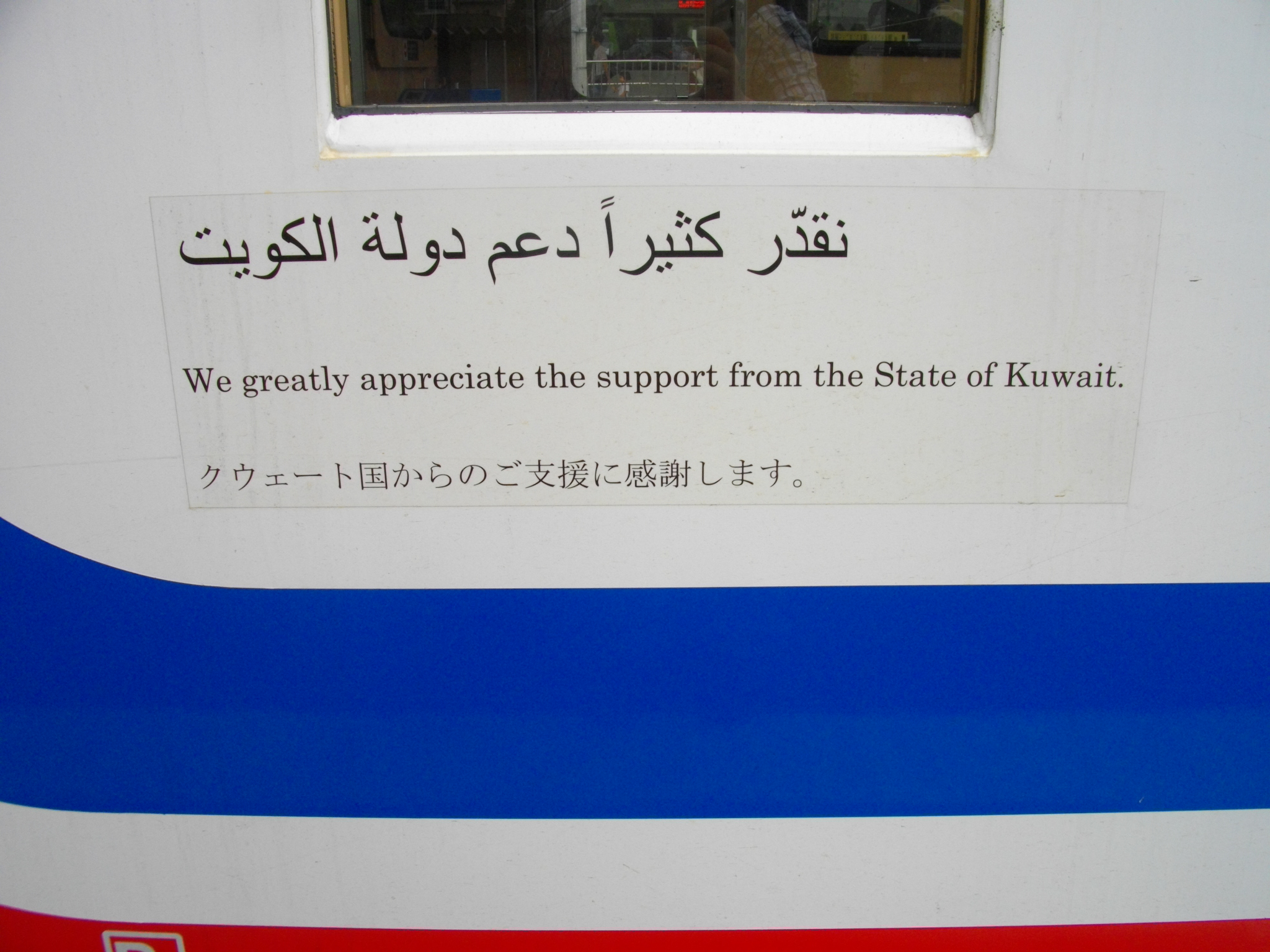 Message of appreciation for Kuwaiti assistance (Sanriku Railway train)